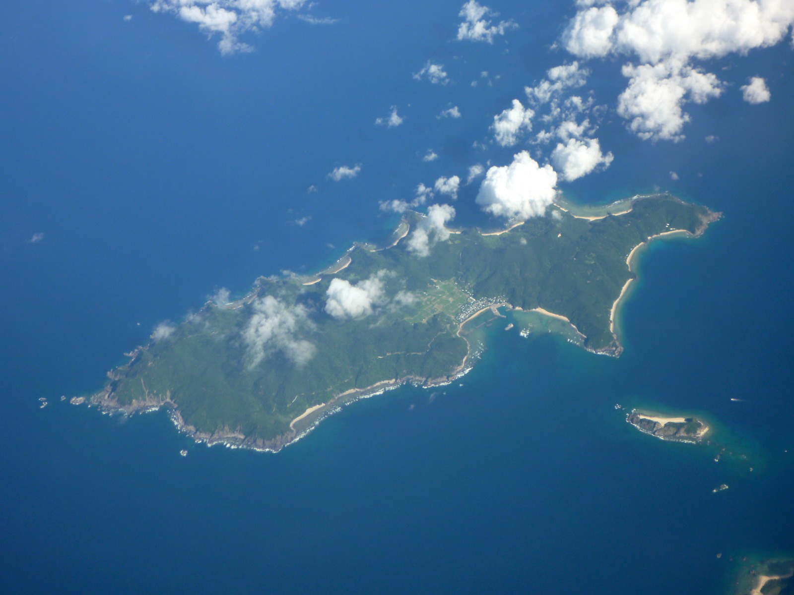 Yorohima, Amami Islands, Kagoshima, Japan